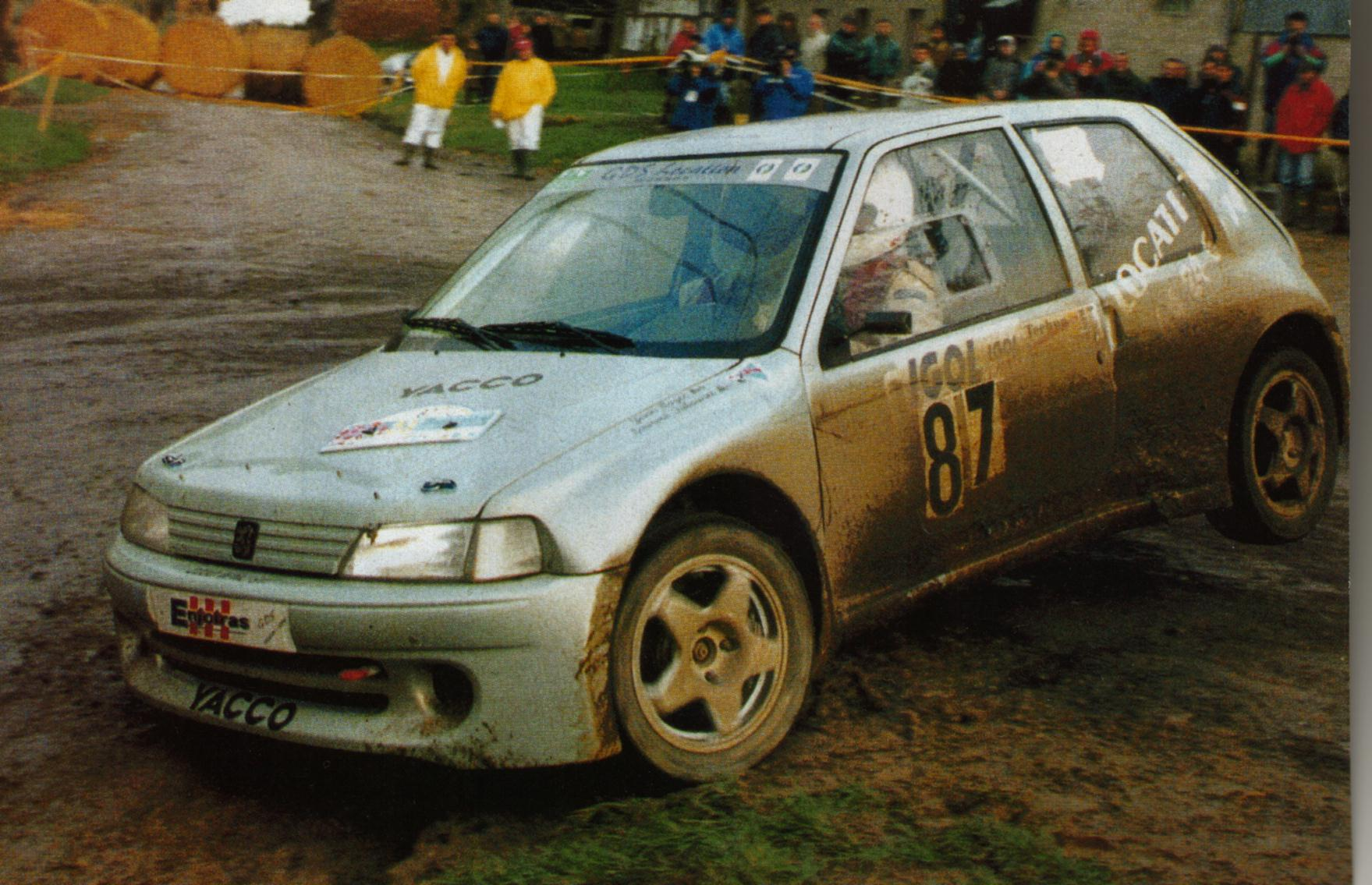 a picture of peugeot 106 S1 maxi